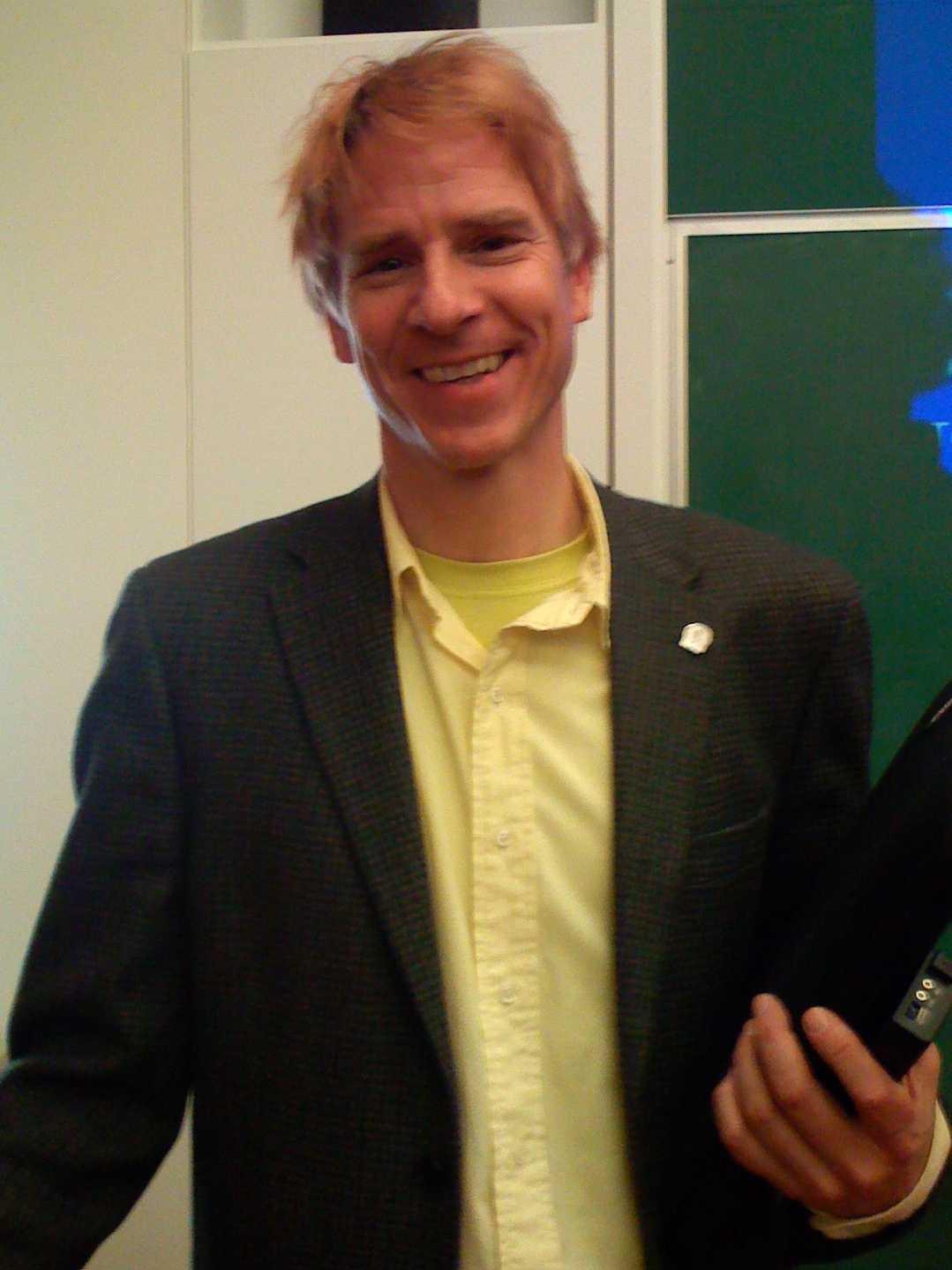 Image of Christof Koch